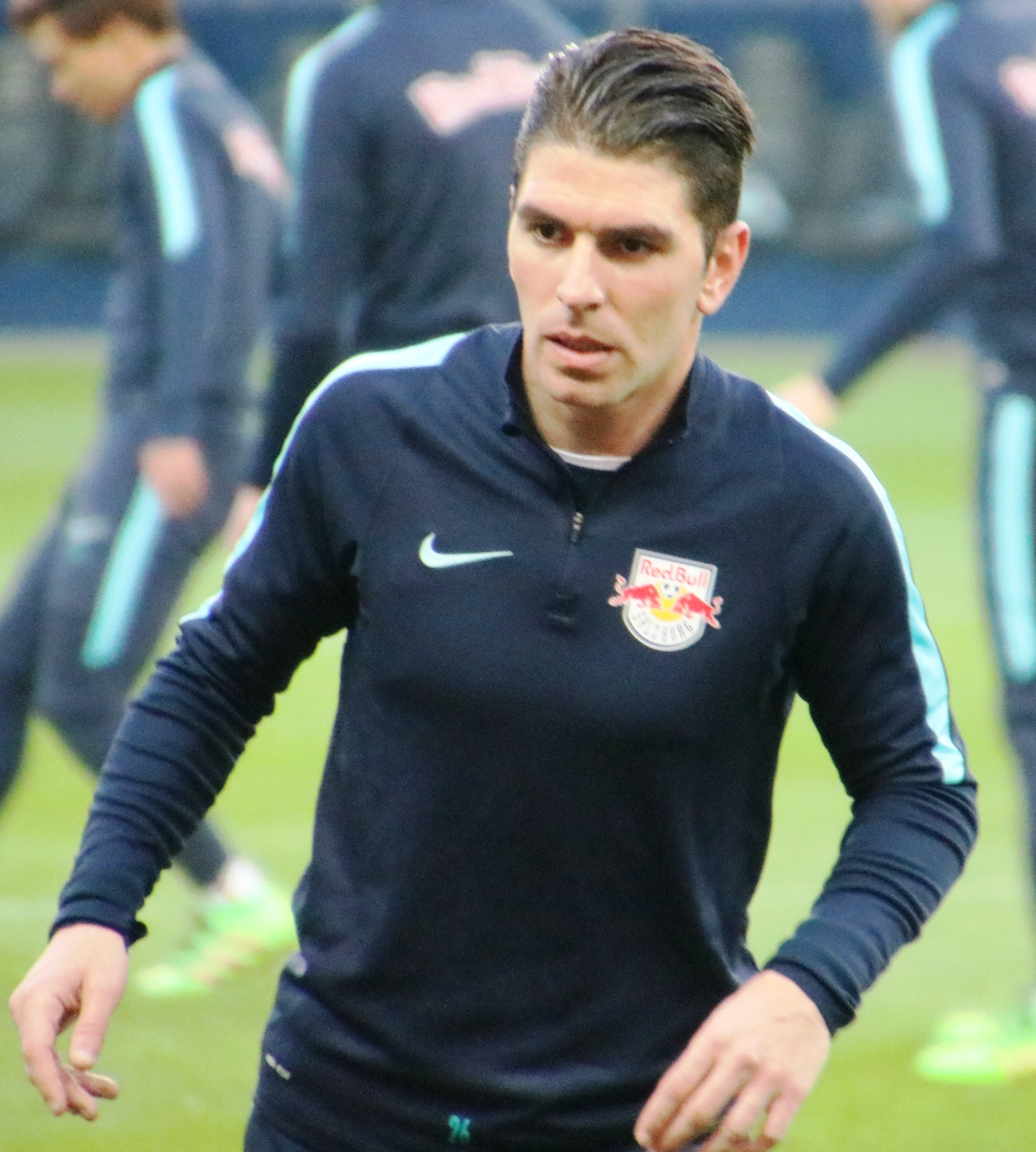 League match Austrian Bundesliga